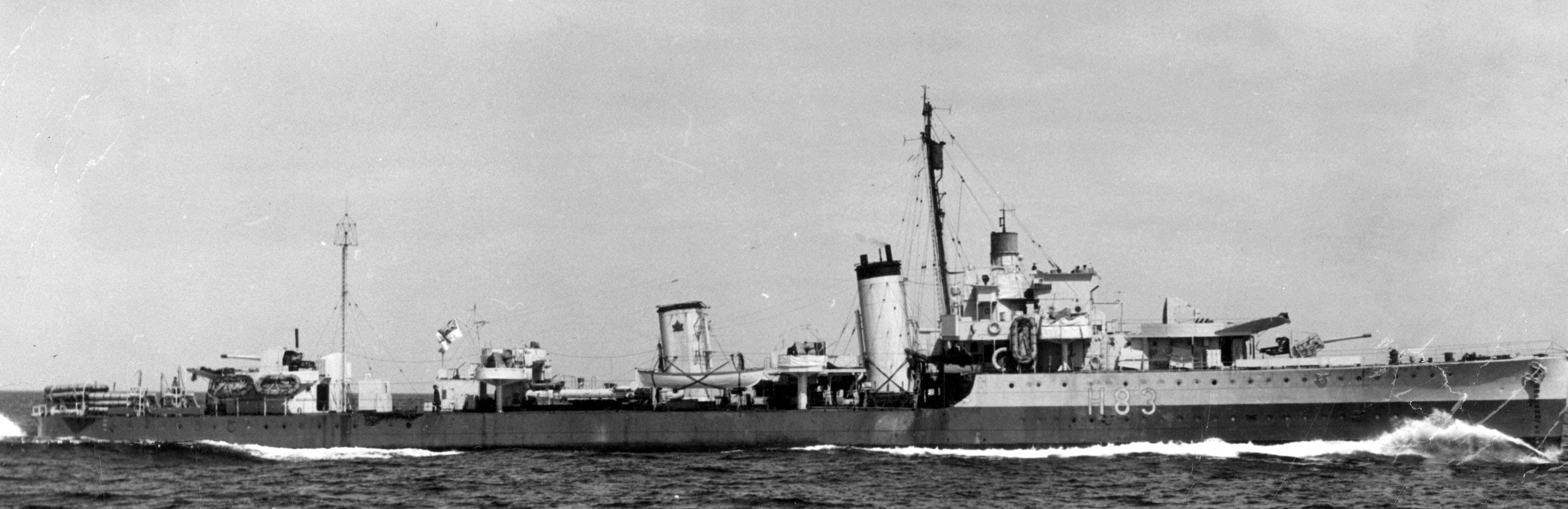 Late war picture of HMCS St. Laurent